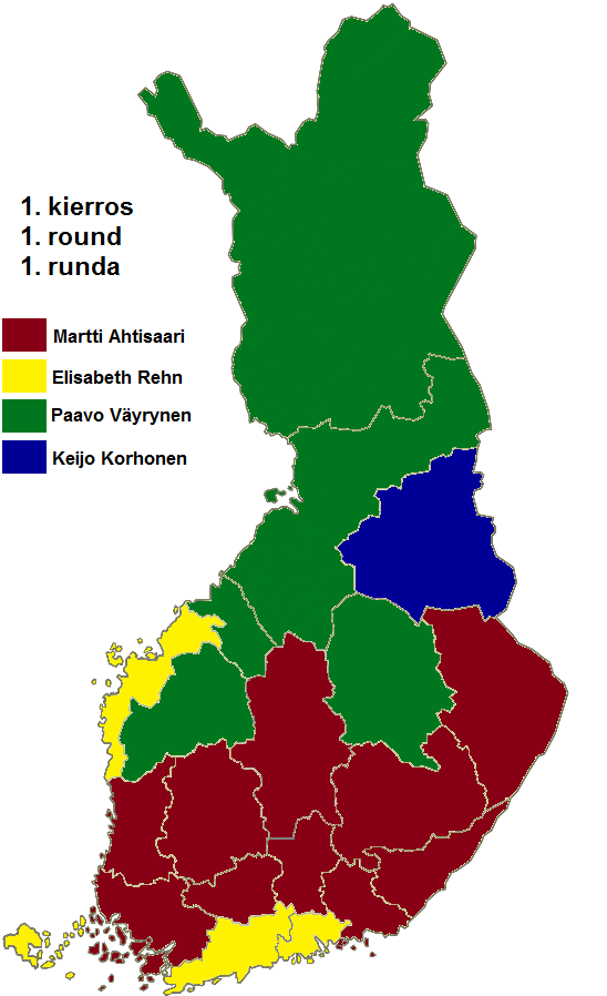 Presidential elections first round result, 1994